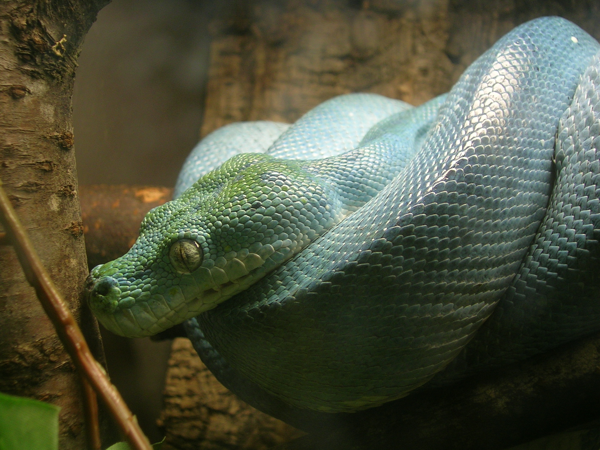 Morelia viridis from Oslo Reptilpark